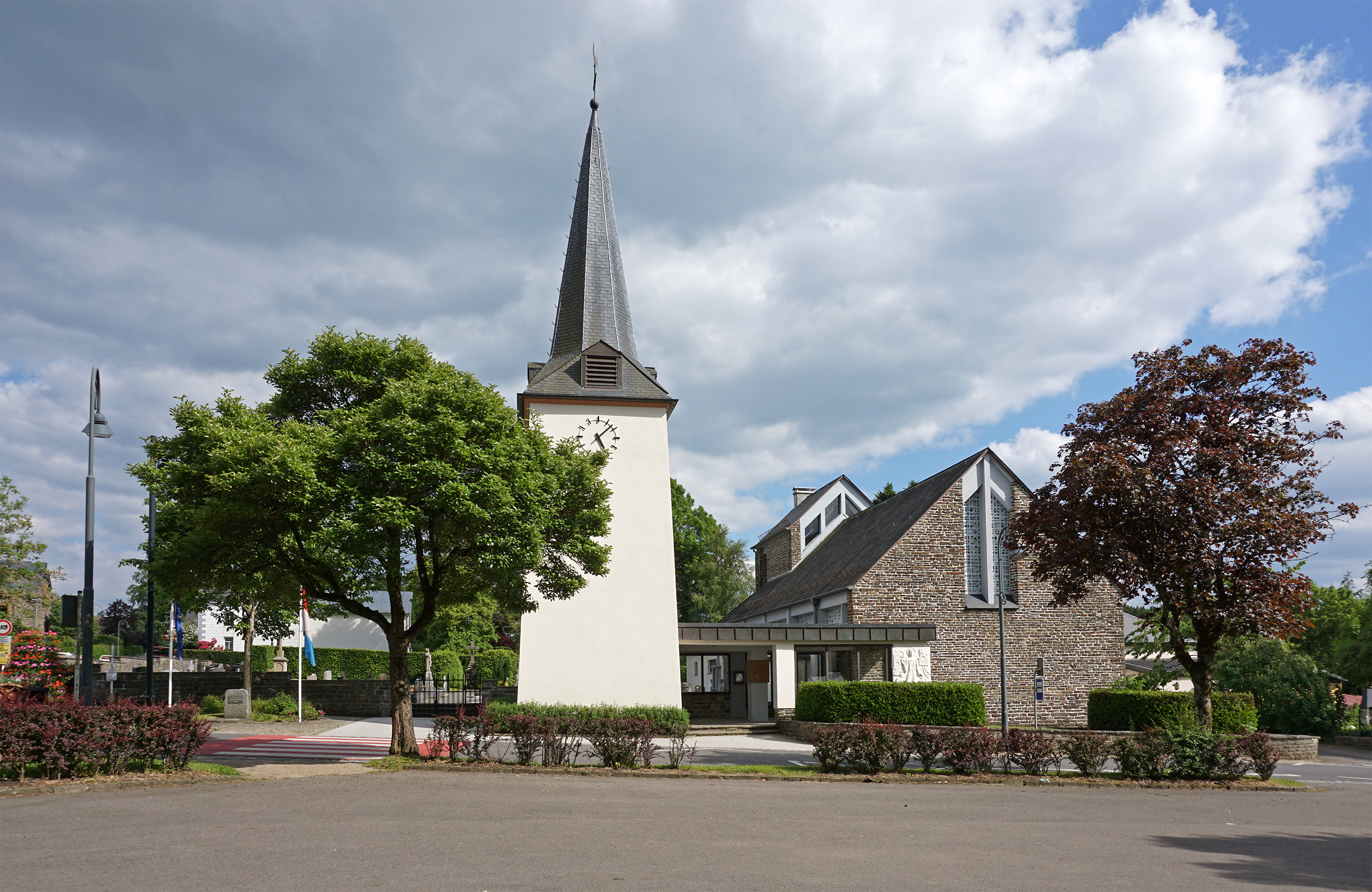 Church in Huldange